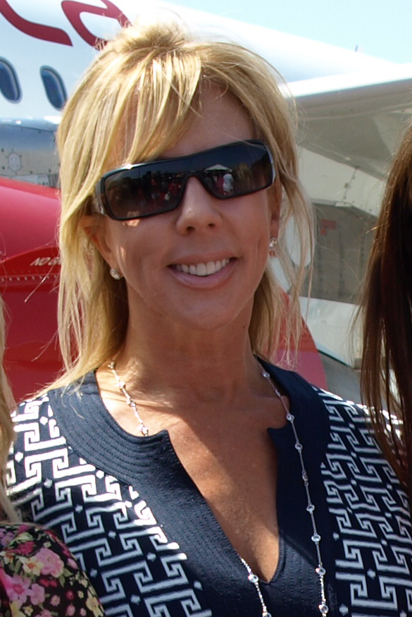 Vicki Gunvalson cropped for infobox